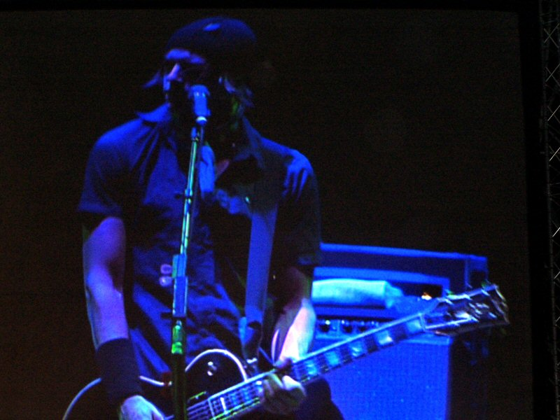 Paul Banks vocalista, Interpol (band) - live concert - at Super Bock Super Rock Festival (Portugal)